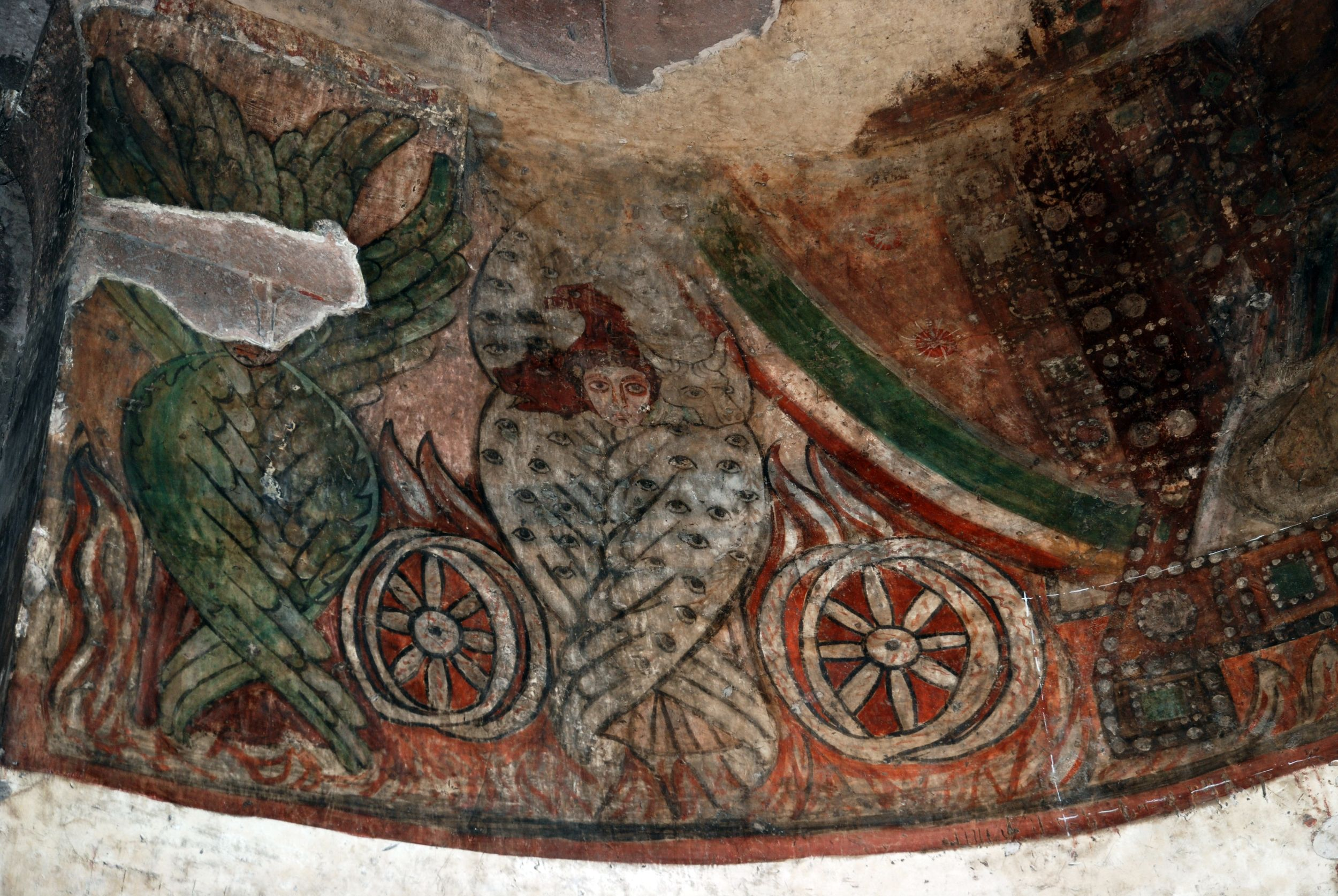 Lmbatavank, fresco apse left side